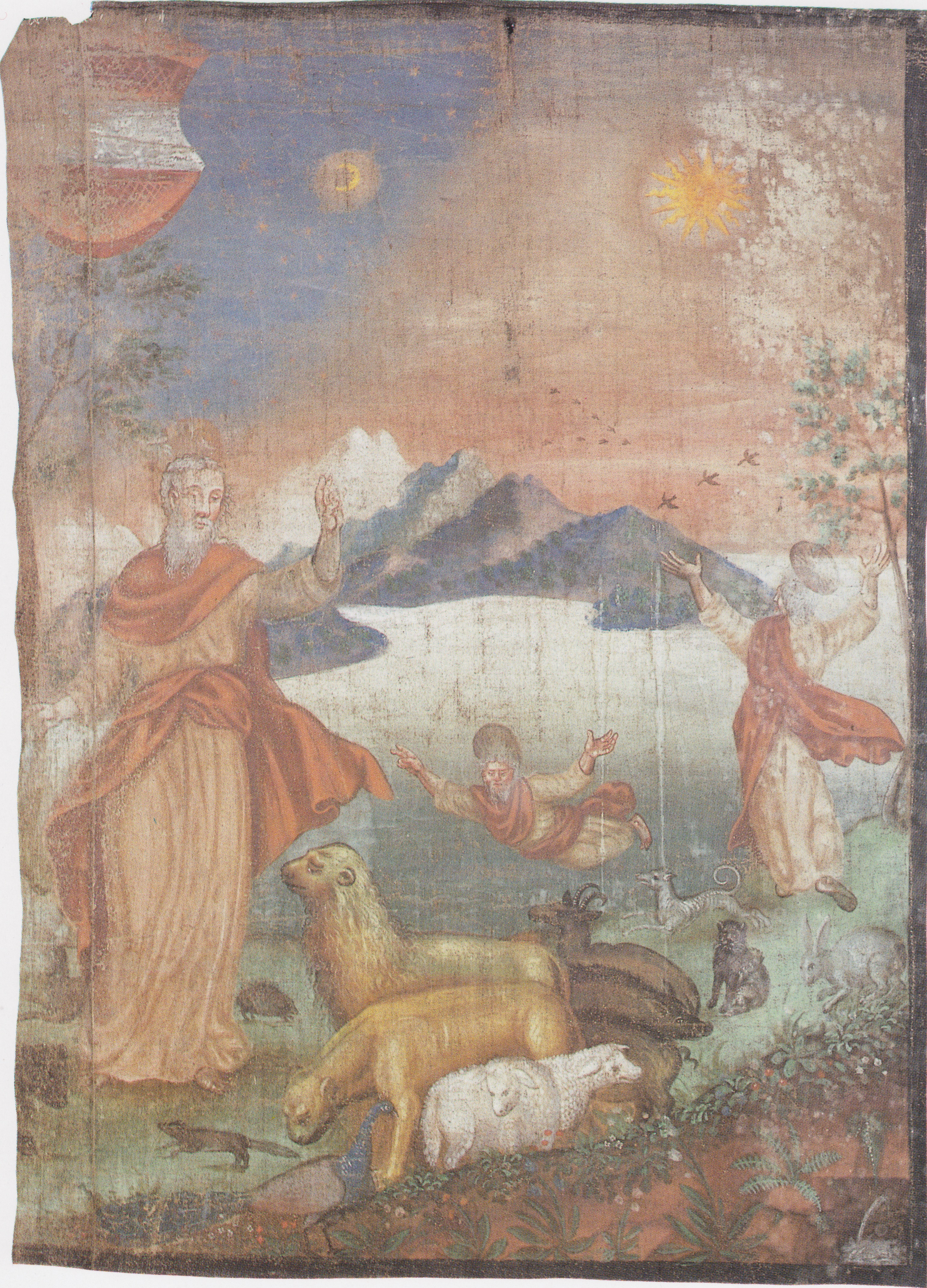 Lenten-canvas of Millstatt